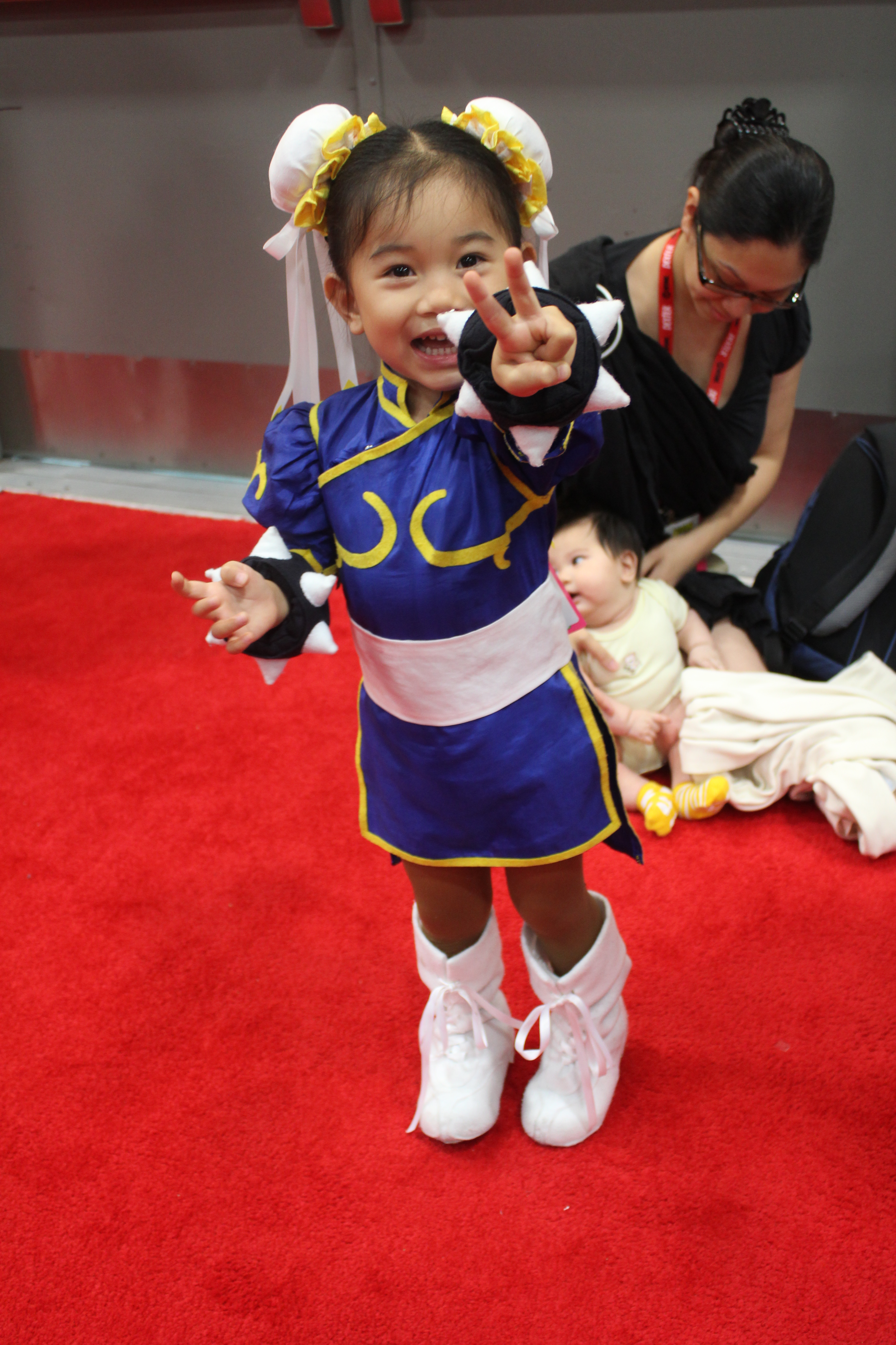 I can't believe I met baby Chun Li in real life! SO CUTE.